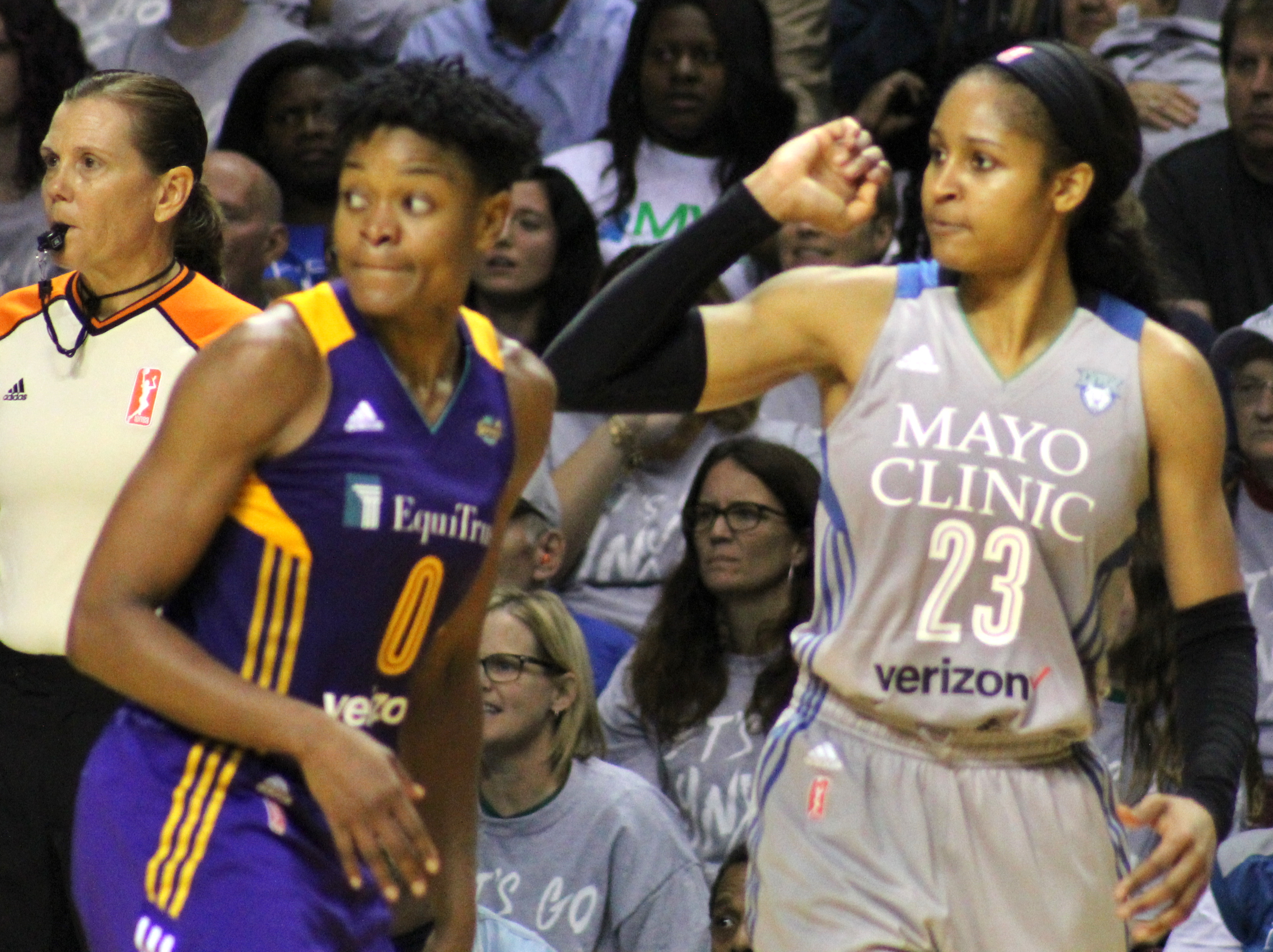 Alana Beard of the Los Angeles Sparks and Maya Moore of the Minnesota Lynx during game 5 of the 2017 WNBA Finals